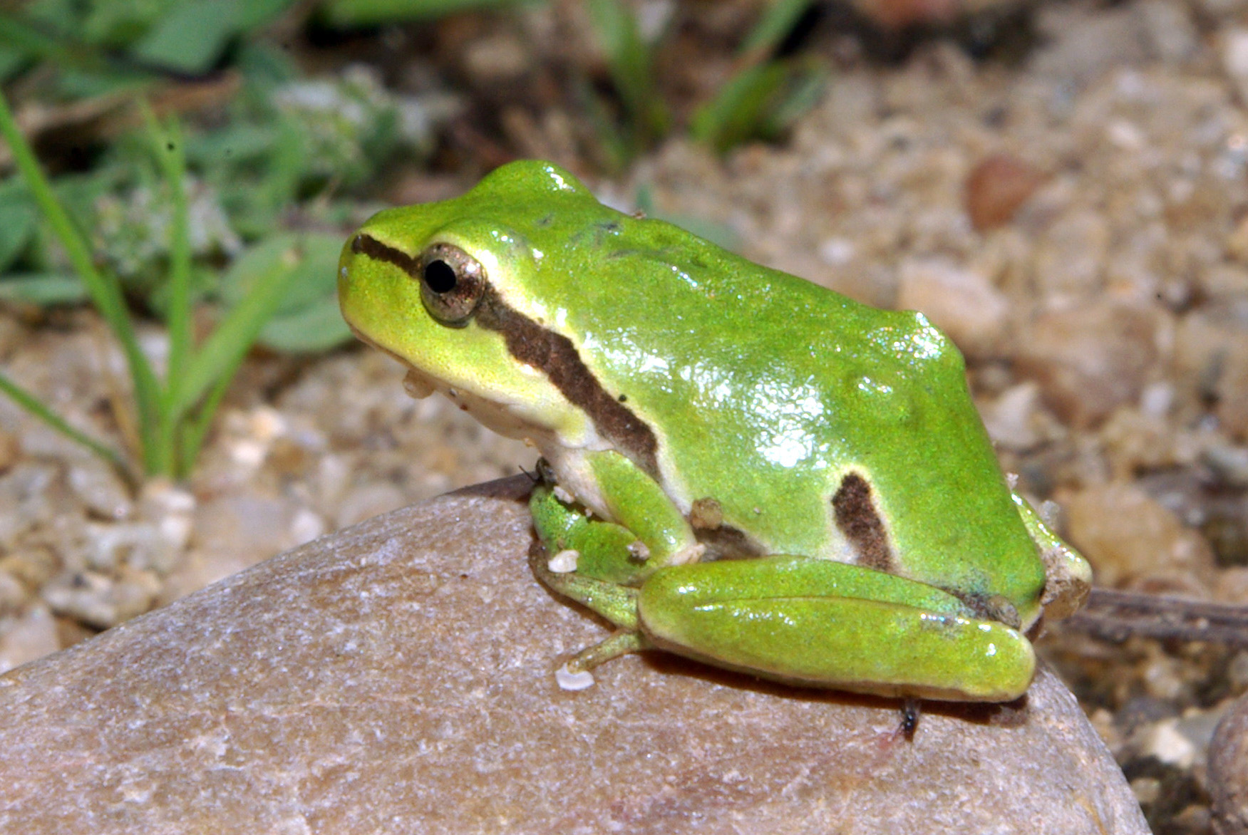 Iberian treefrog (Hyla molleri), Salanaca (Spain).